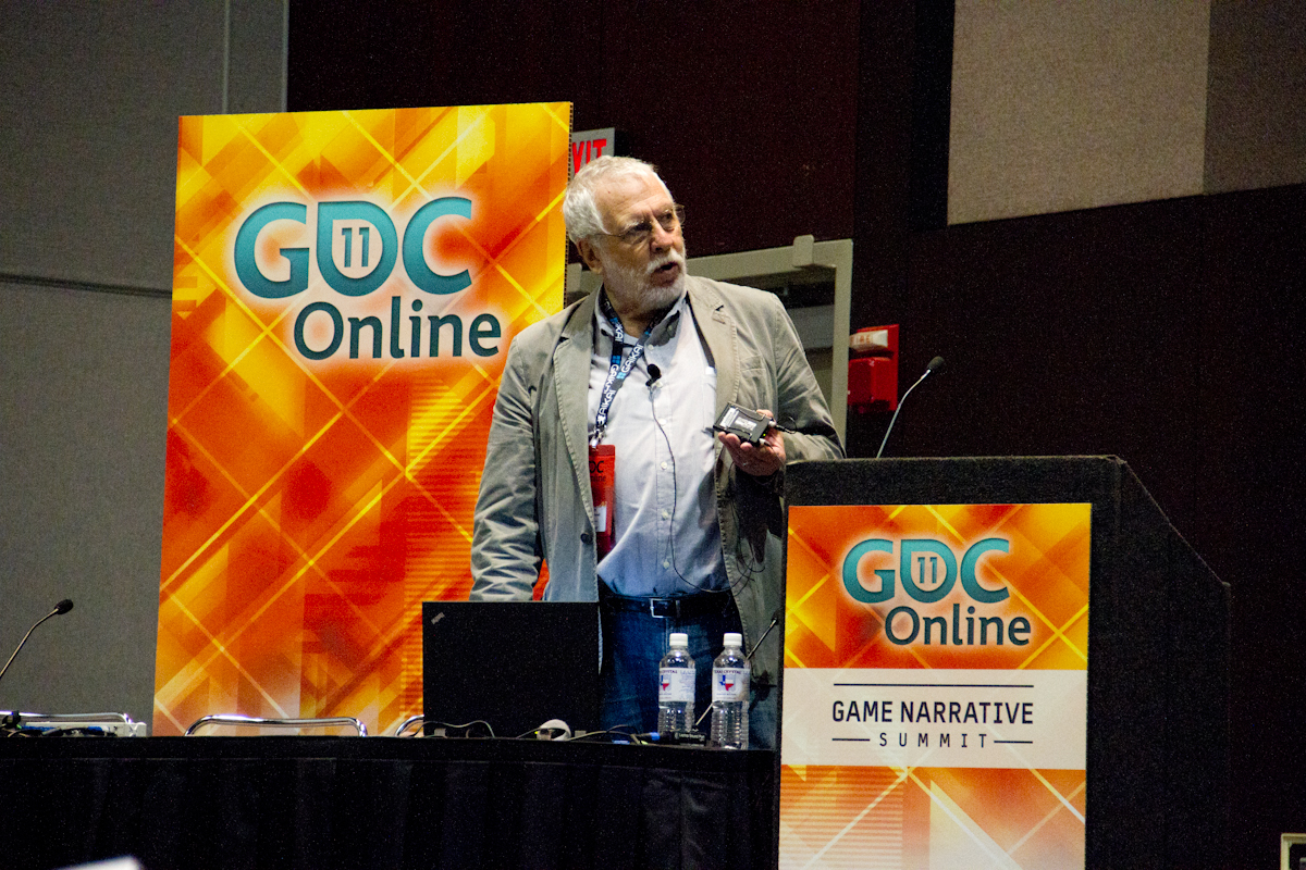 Nolan Bushnell at the Game Narrative Summit, during the GDC Online 2011.